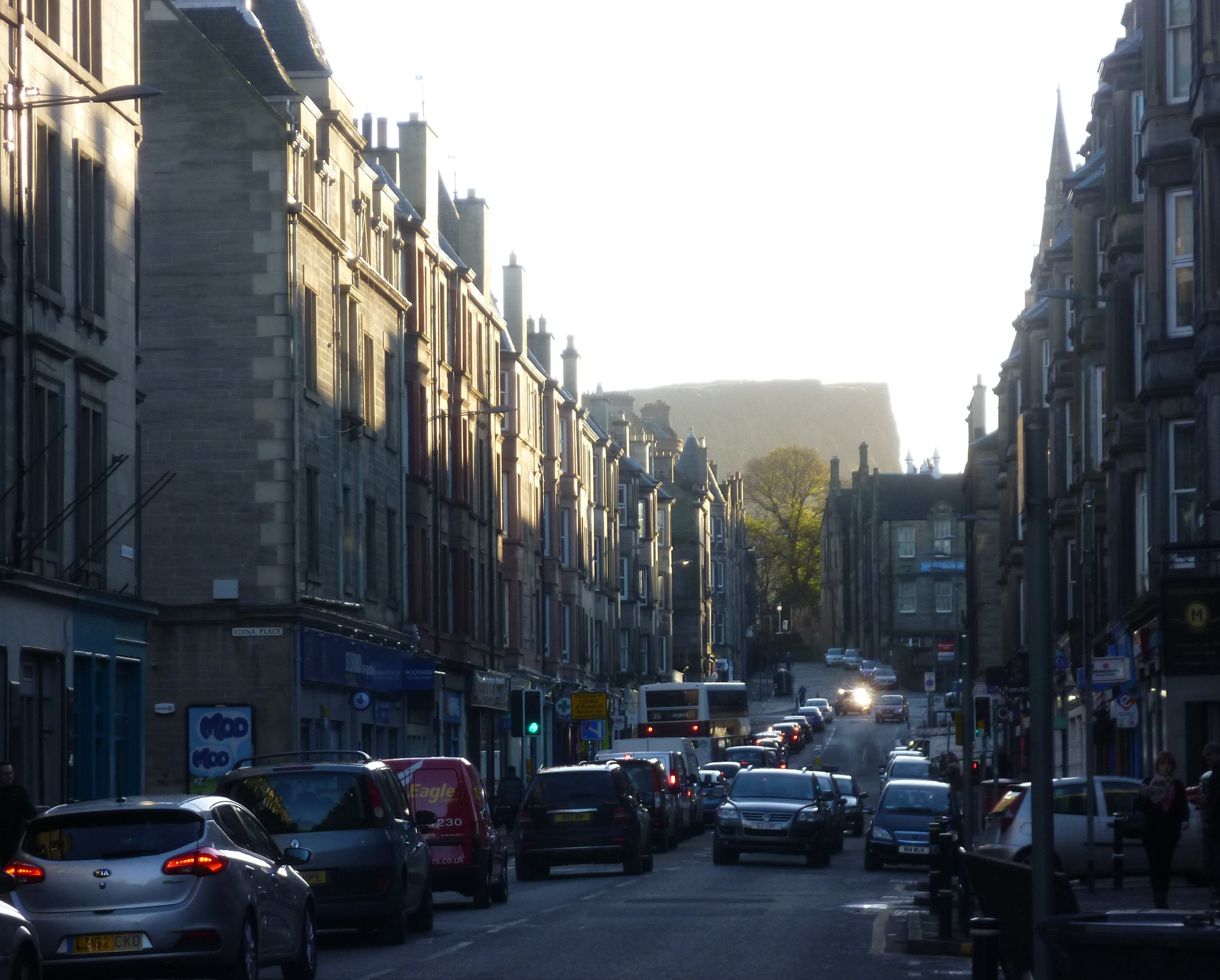 Easter Road in December